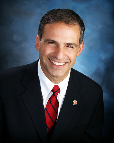 Congressman Mike Arcuri (D-NY)